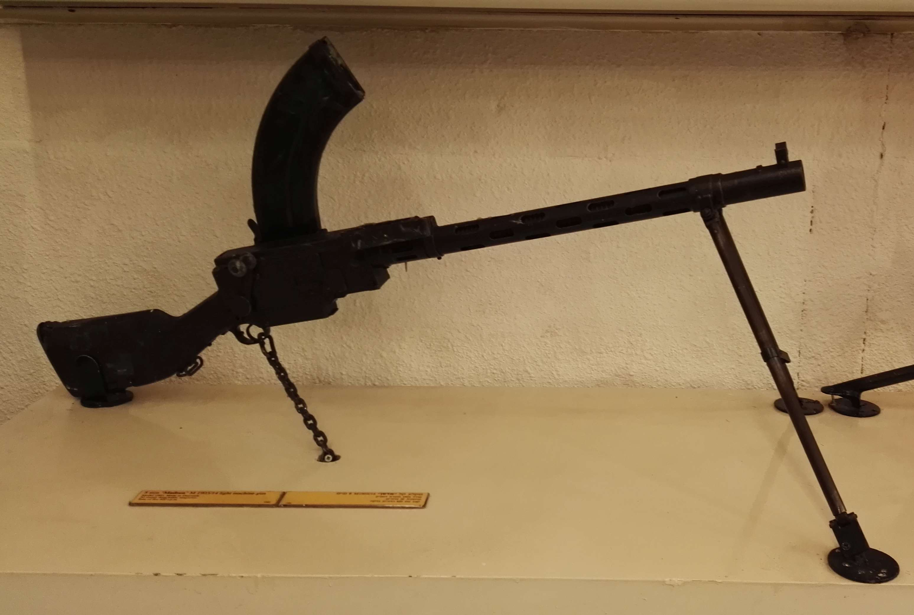 Batey ha-Osef Museum, Tel Aviv, Israel.